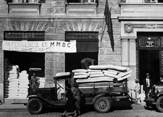 Posto de Intendência do MMDC